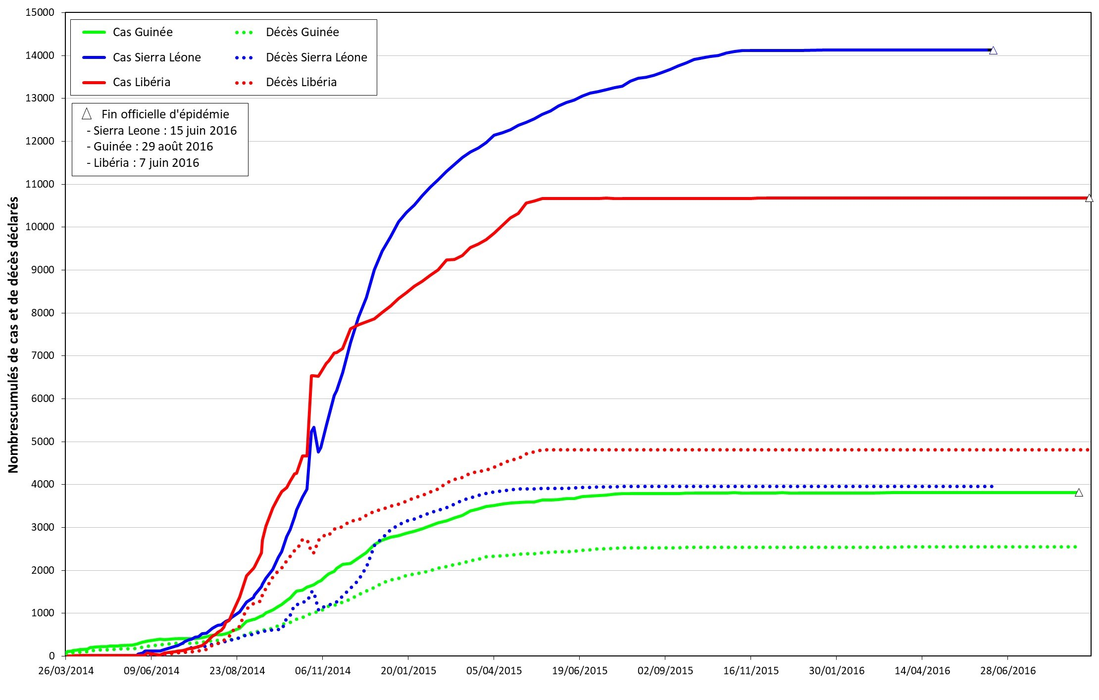 This graph shows the evolution of cumulative Ebola cases and deaths in Guinea, Liberia and Sierra Leone from March 2014 (month of international alert) to September 2016 (official end of the epidemic).